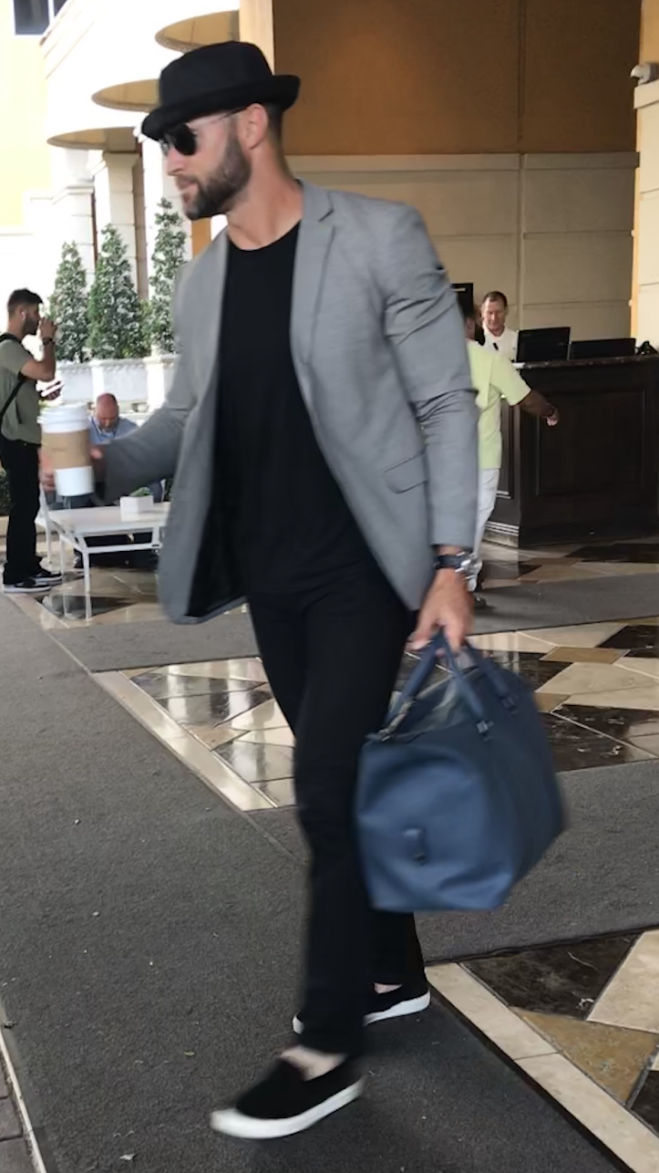 Former Phillies manager, Gabe Kapler